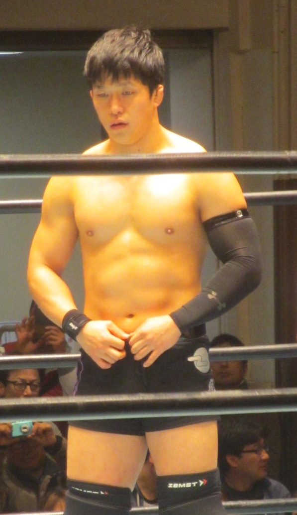 Japanese professional wrestler,Kazuki Hashimoto. Mar 5 2017, BJW Korakuen Hall.